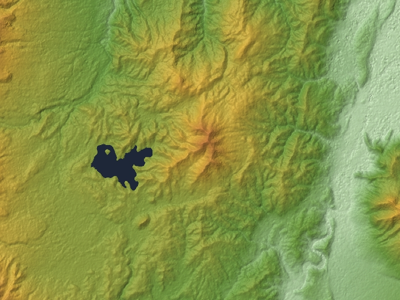 Around Mount Madarao in the border between Nagano and Niigata prefectures, Honshu, Japan.